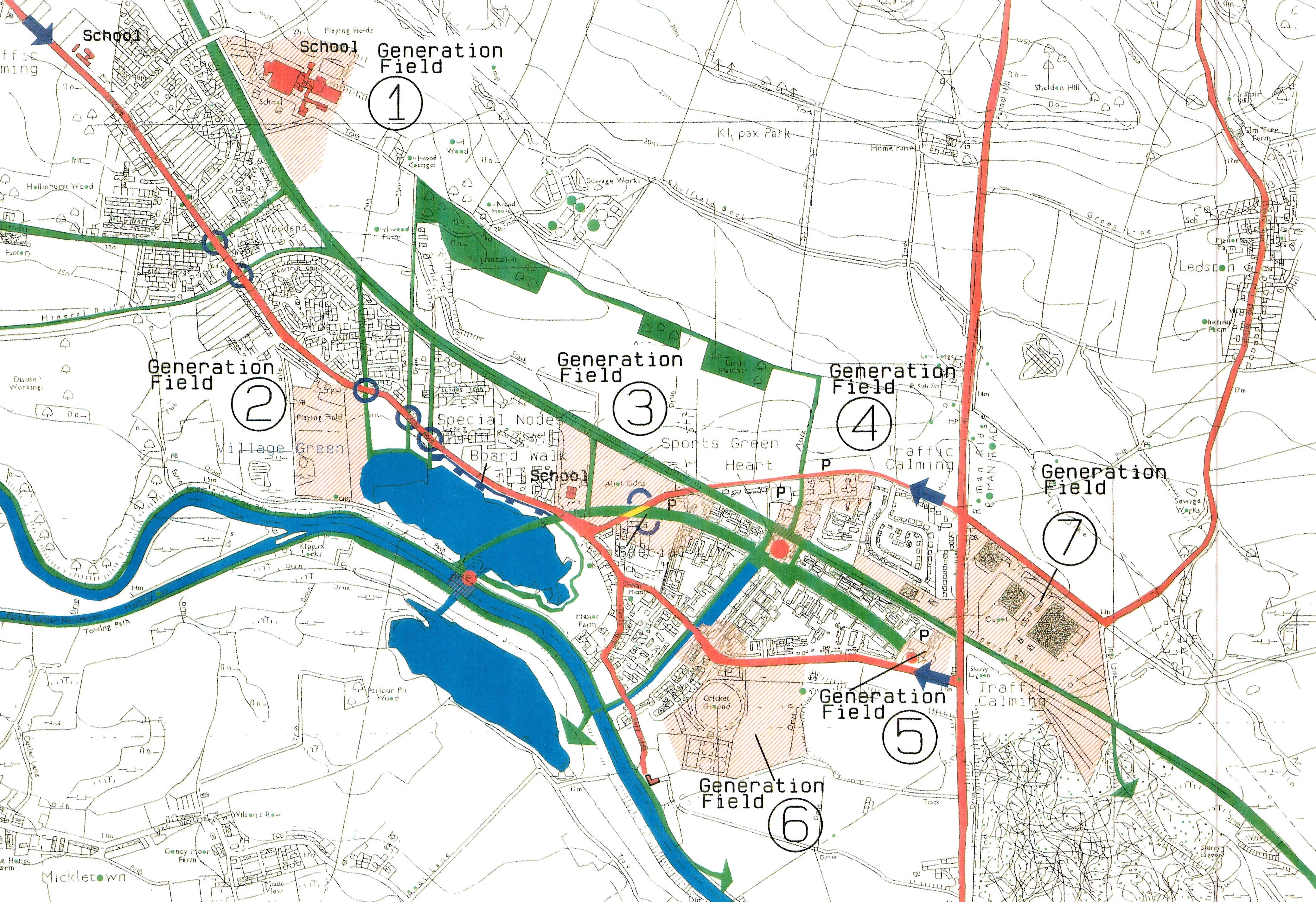 Featured images for Douglas Jarvie Clelland Wikipedia article